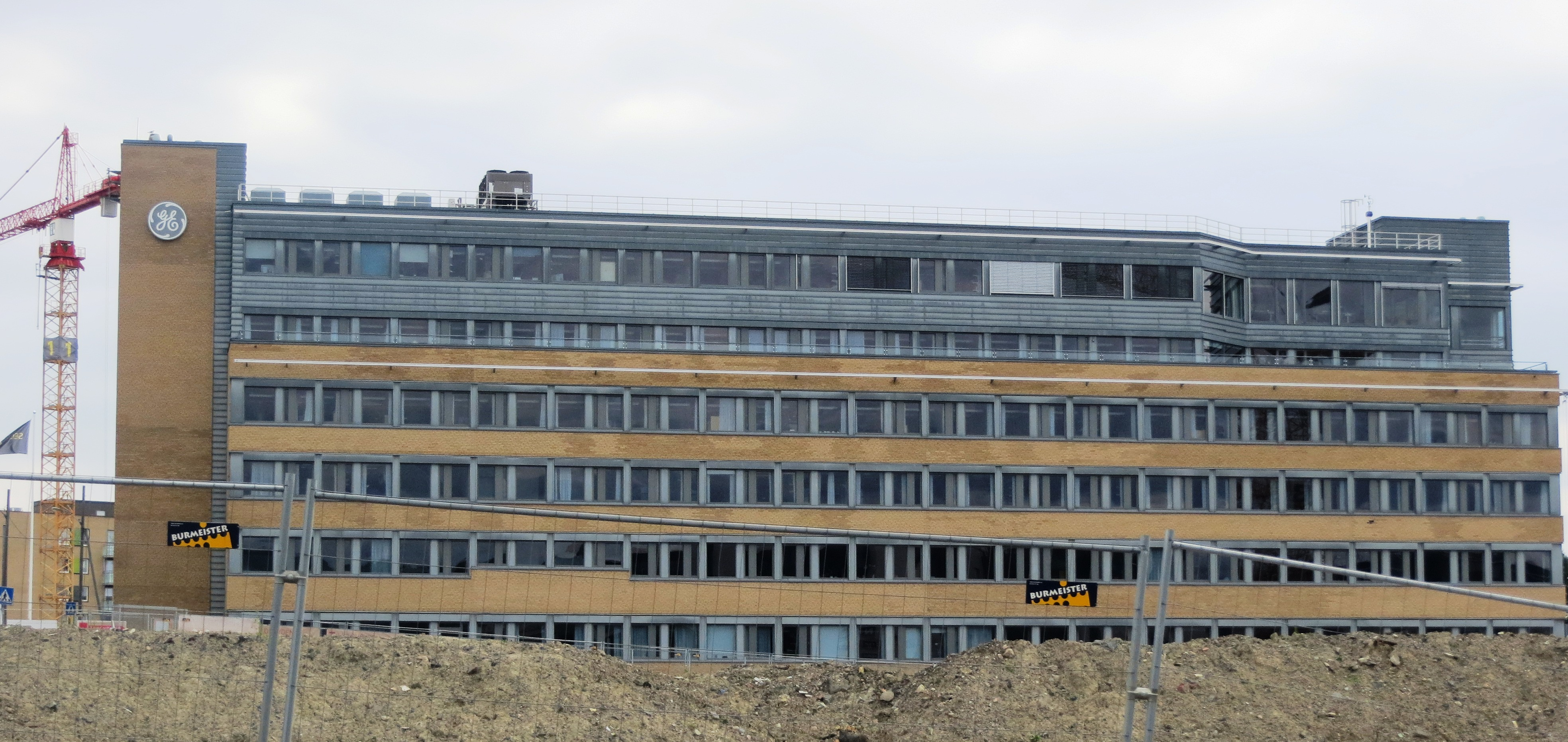 General Electric (GE) Office in Oslo, Norway.